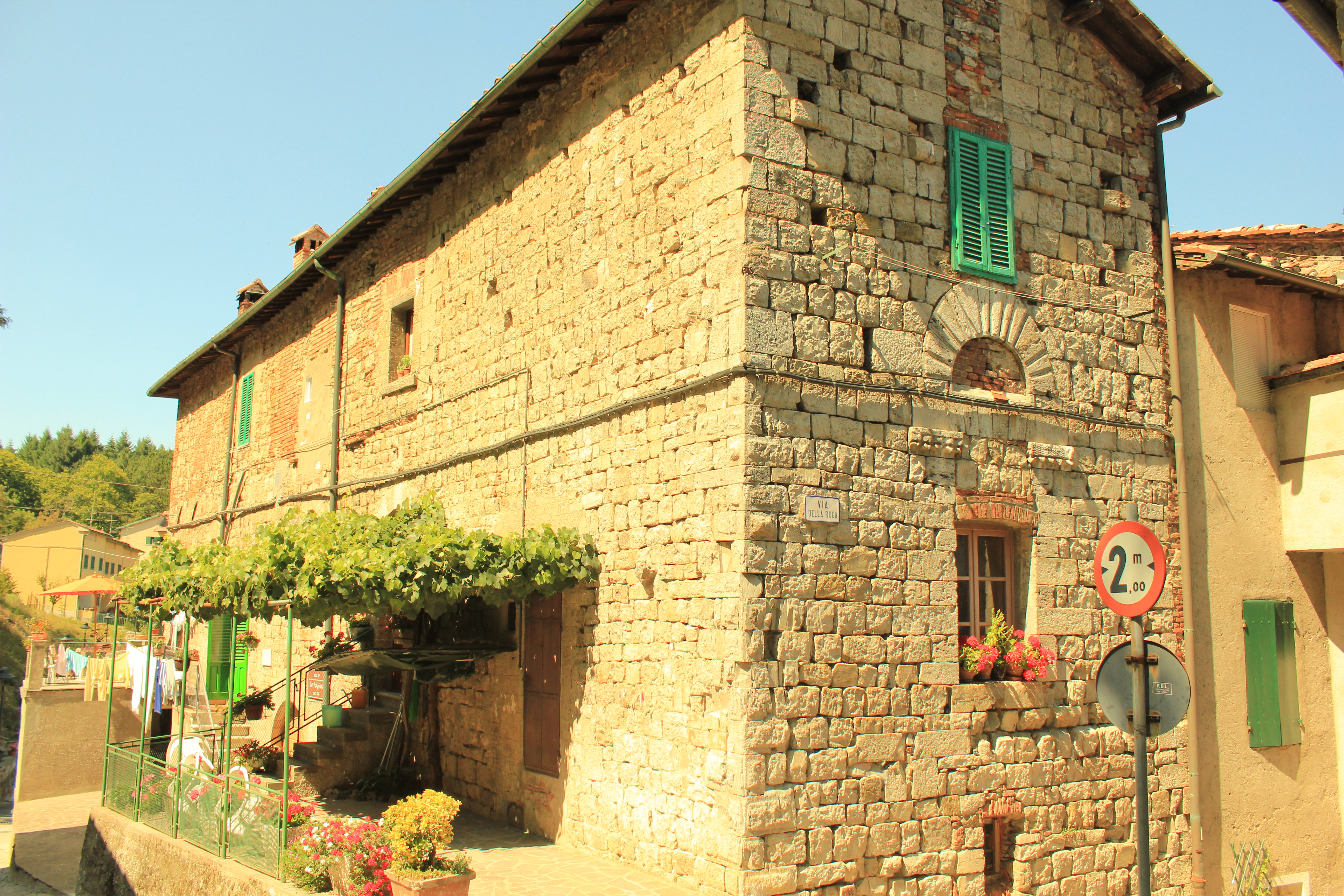 Old Cassero of Montieri